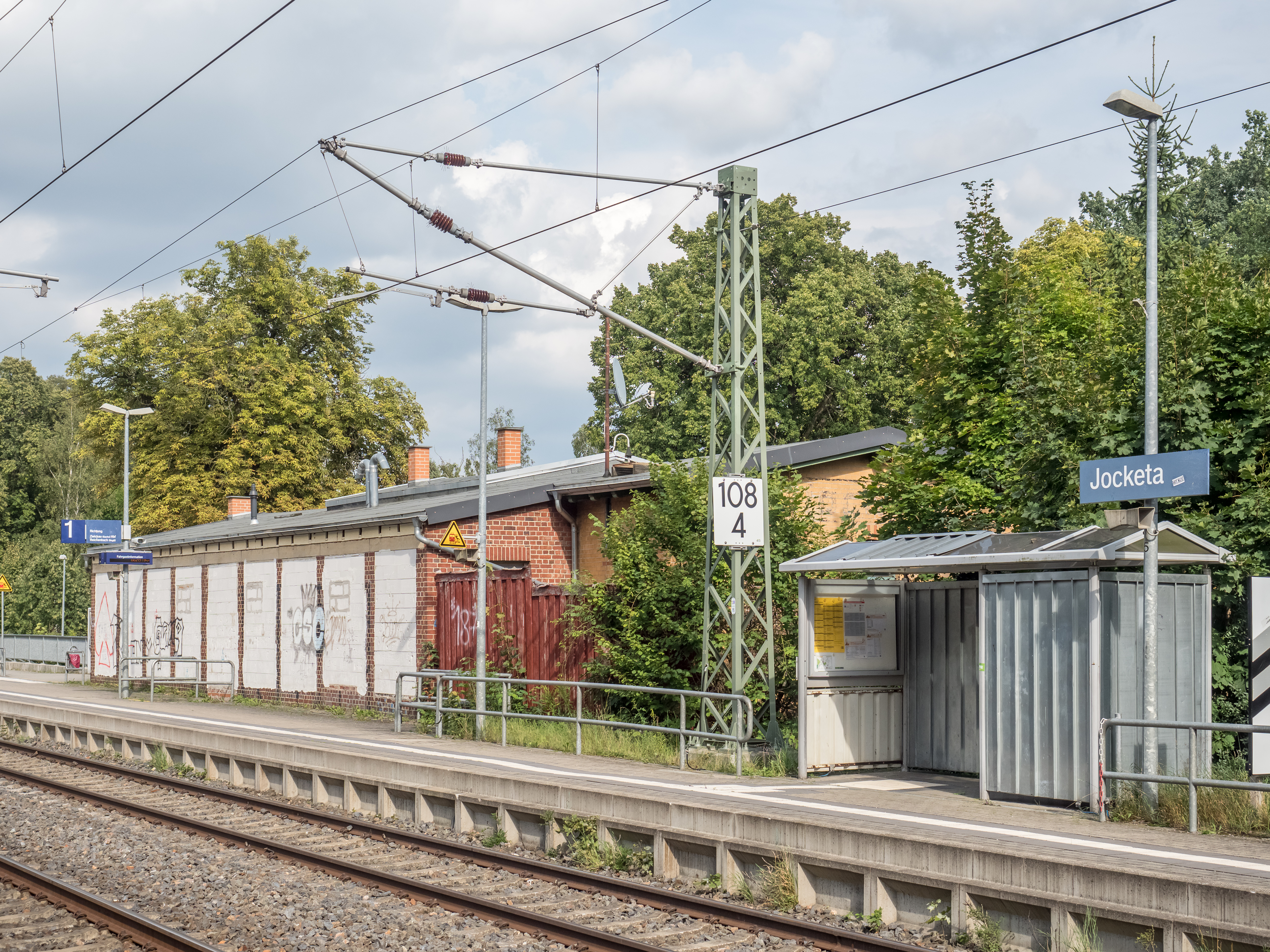 Jocketa train station in Saxony